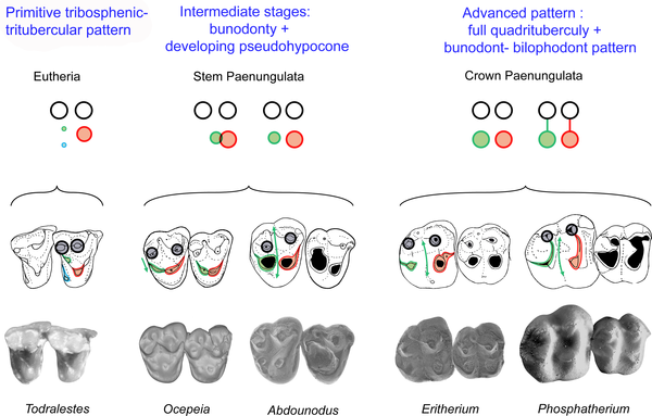 Origin and evolution of the bilophodont pattern in paenungulates: a new structural scenario for upper molars including the stem taxa Ocepeia and Abdounodus vwhich documents two intermediate stages between the tribosphenictri-tubercular pattern and the quadritubercular-bilophodont pattern. Black circles: paracone and metacone, green circle: metaconule; red circle: protocone; blue circle: hypocone; transverse lines: proto- and metaloph; double arrow: interloph.